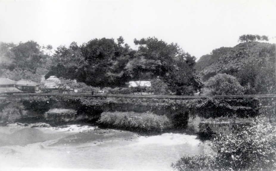 Hija Bridge, Yomitan, Okinawa, Japan